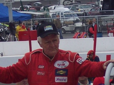 Racing driver James Hylton at Iowa Speedway in 2006.